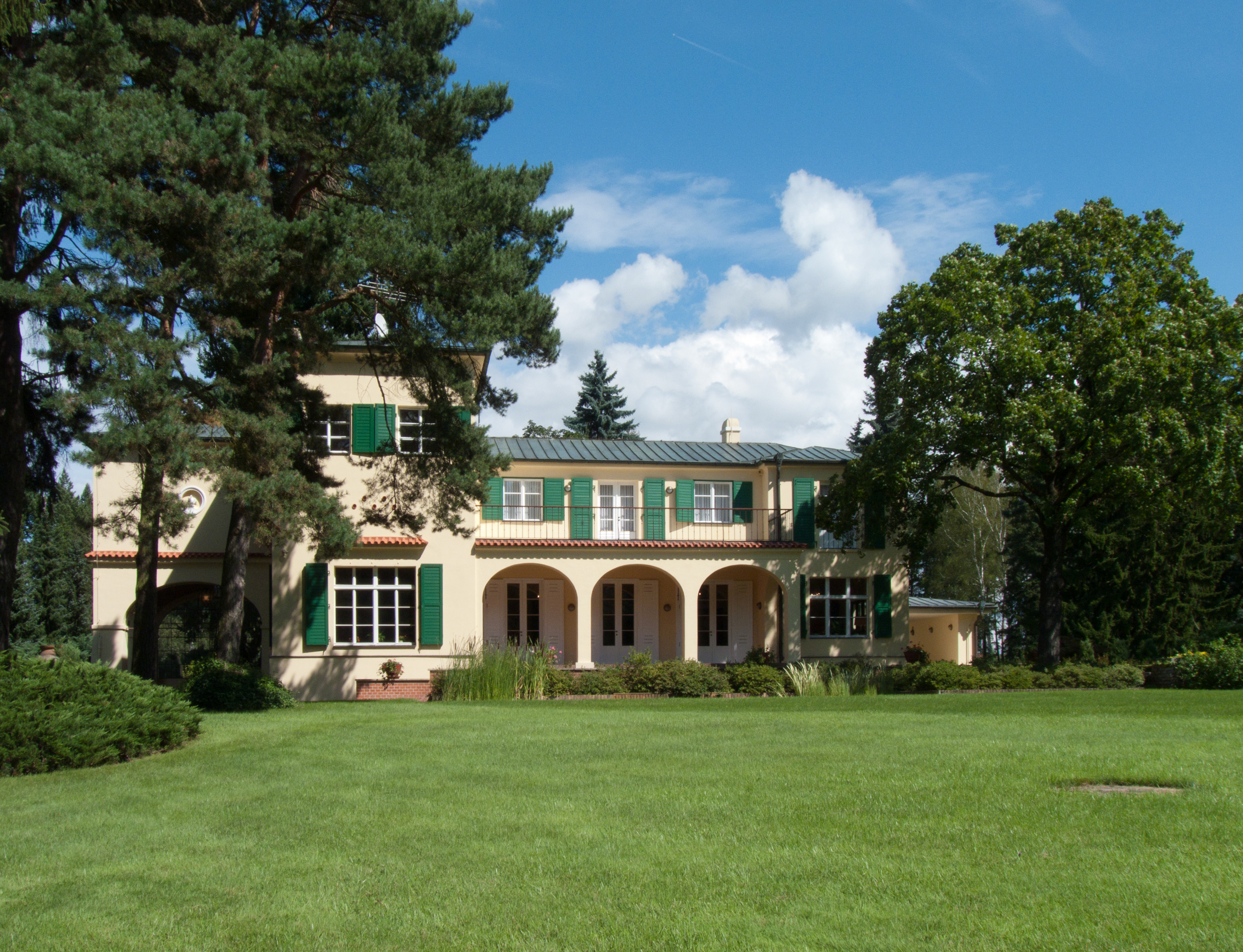 Beneš villa (private house owned by the second Czechoslovak president Edvard Beneš) in Sezimově Ústí, Czech Republic, as seen from the south-east